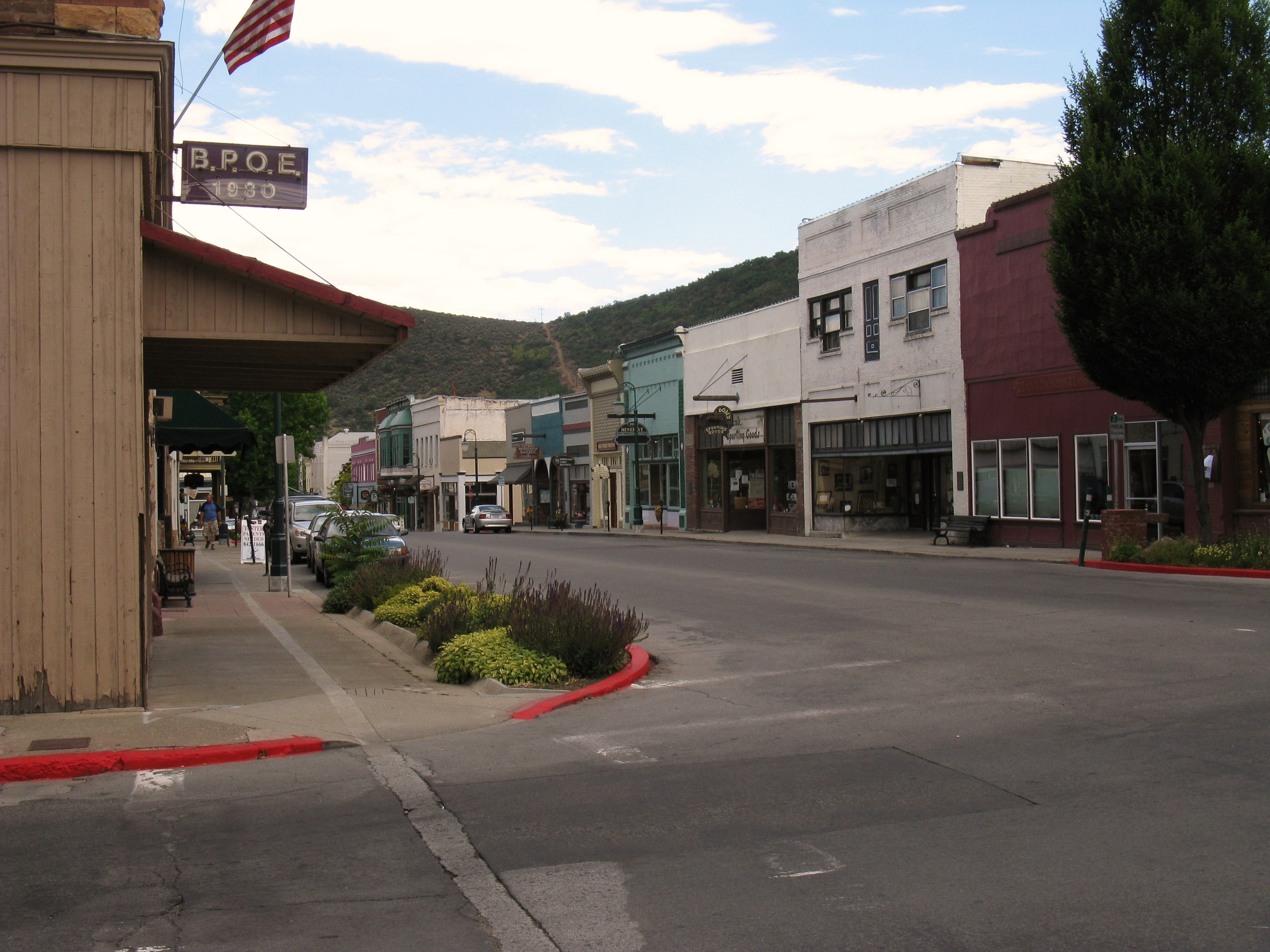 West Miner Street in Yreka, California looking east towards I-5. This area is part of the West Miner Street-Third Street District, which is listed on the National Register of Historic Places.